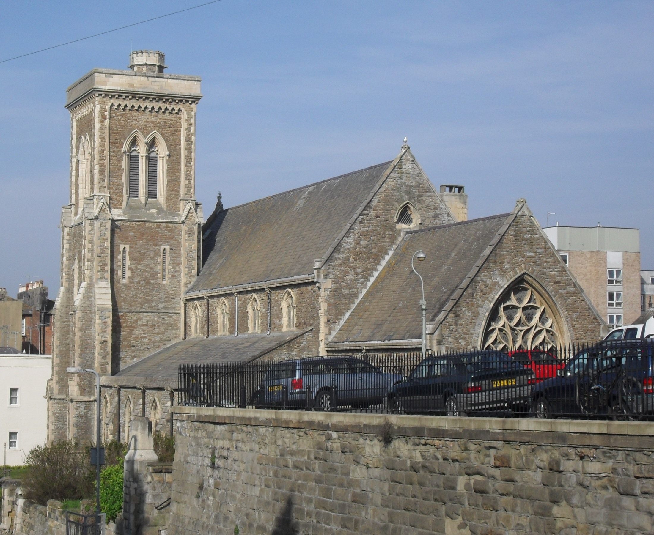 Greek Orthodox church of St Mary Magdalen, St Margaret's Road, Hastings, East Sussex, seen from the east. Designed by Frederick Marrable and built in 1852 as the Church of England parish church of St Margaret. Bought by the Greek Orthodox community in 1982.